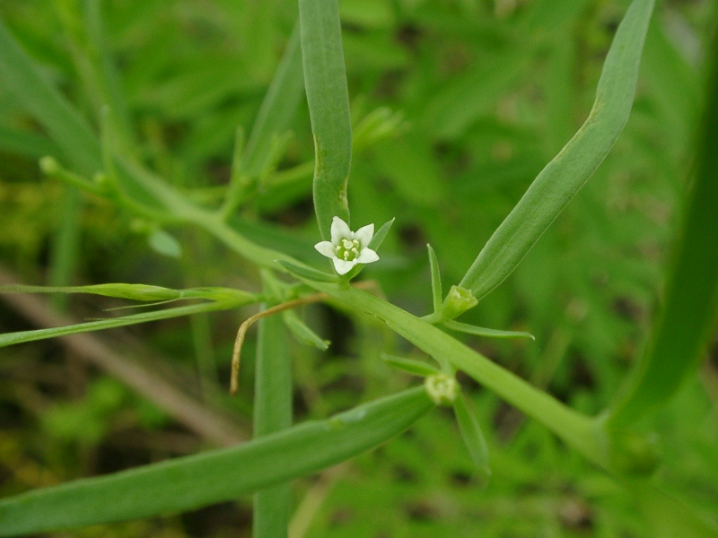 Thesium chinense flower at Odawara-city, Japan.